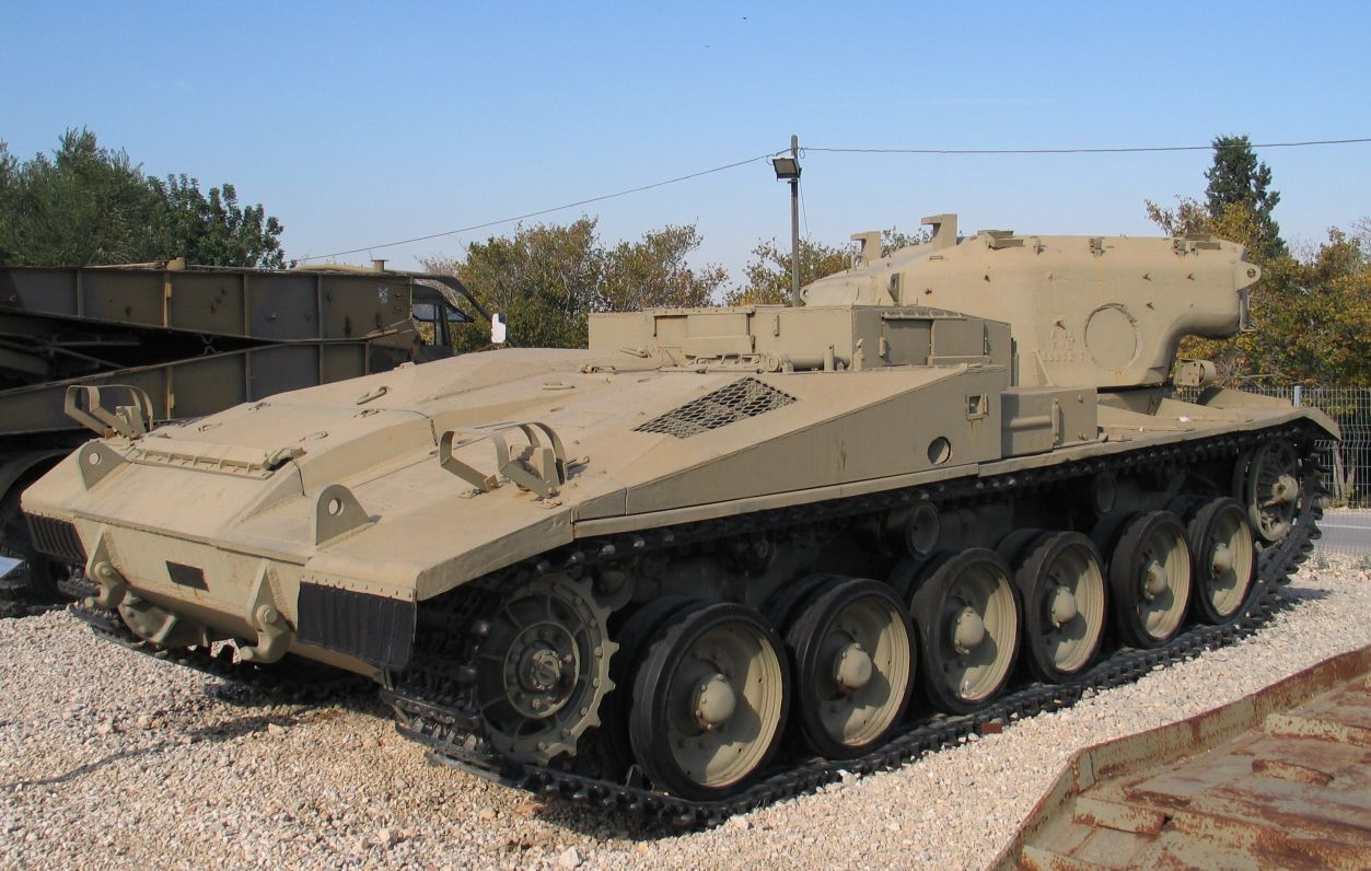 Description: Israeli Merkava MBT prototype (based on Centurion tank chassis) in Yad la-Shiryon Museum, Israel. 2005. Source: Photo by me, User:Bukvoed.